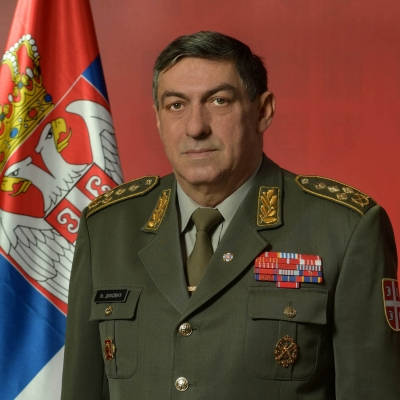 Ex Chief of General Staff